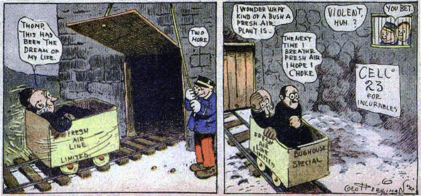 The 11th and 12th panels from George Herriman's comic strip Major Ozone's Fresh Air Crusade for April 21, 1906. Cropped and retouched from File:Major Ozone's Fresh Air Crusade 1906-04-21.jpg.